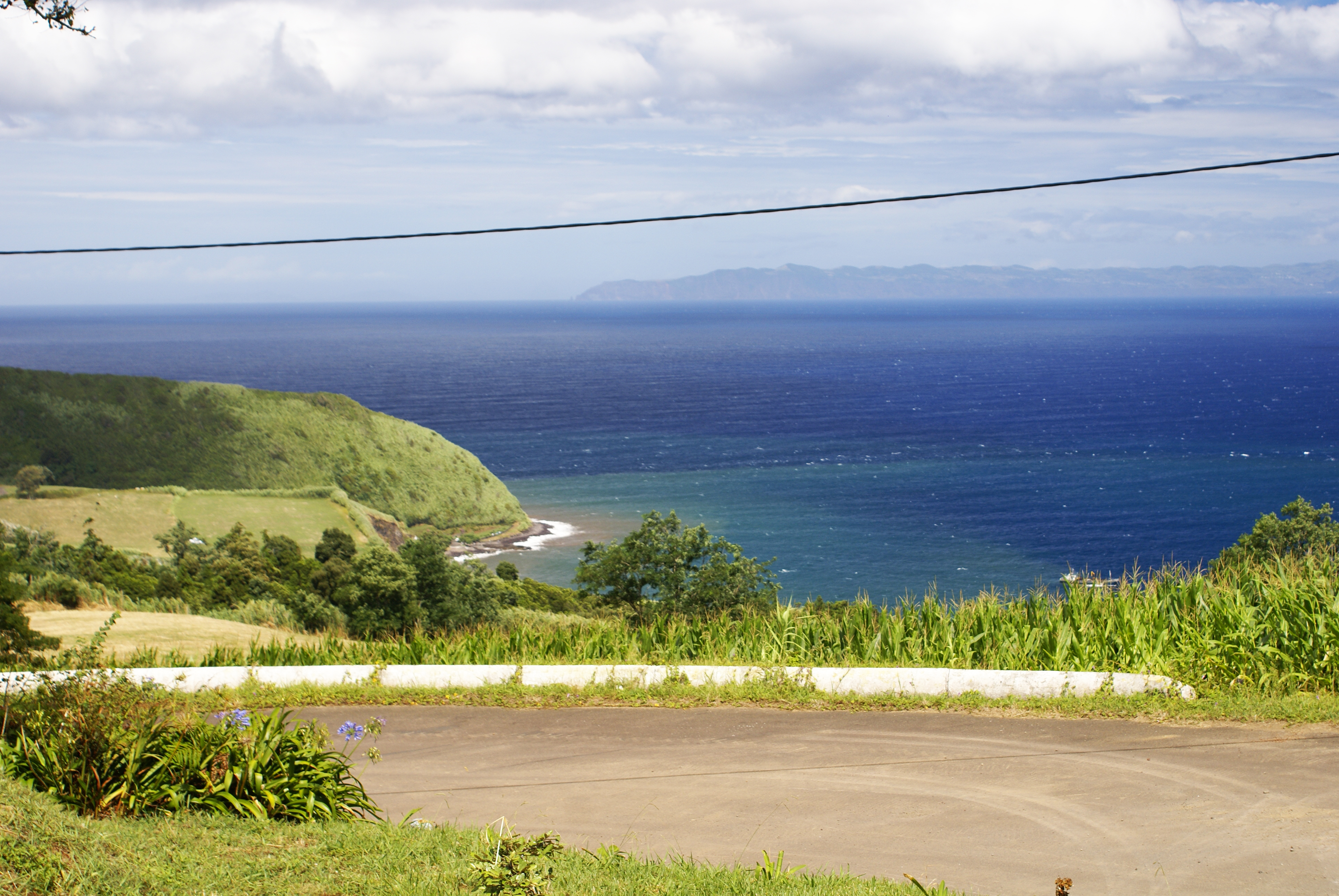 Miradouro da Ribeirinha, 1 Ribeirinha, concelho da Horta, ilha do Faial, Açores, Portugal